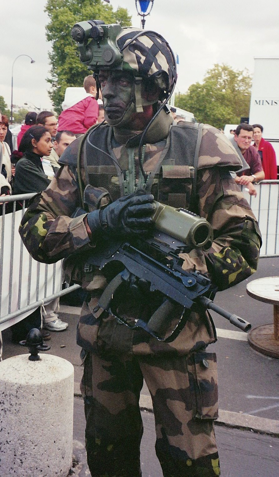 Nation/Defense days, Esplanade des Invalides, Paris, France, September 24-25, 2005: FELIN suit